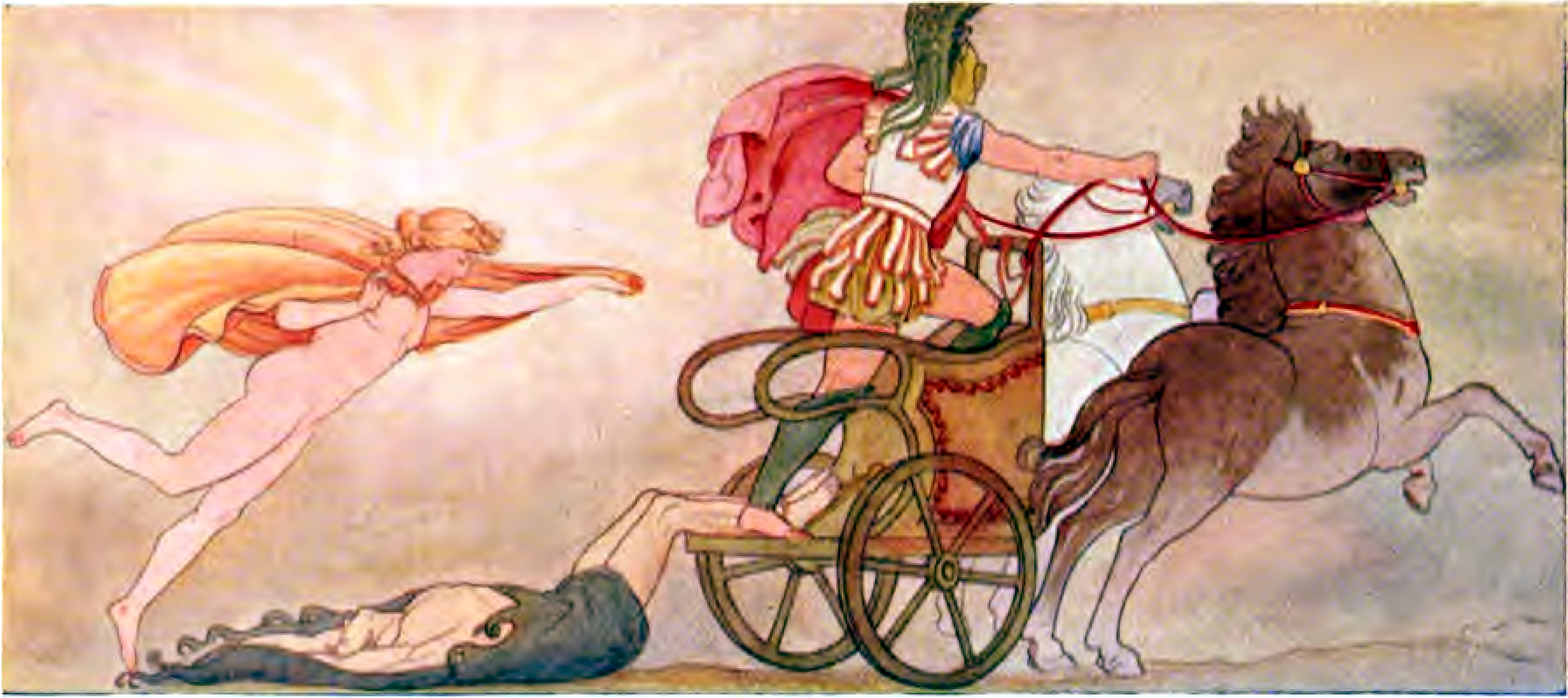 Hector's body dragged at the Chariot of Achilles. from The story of the Iliad, 1907